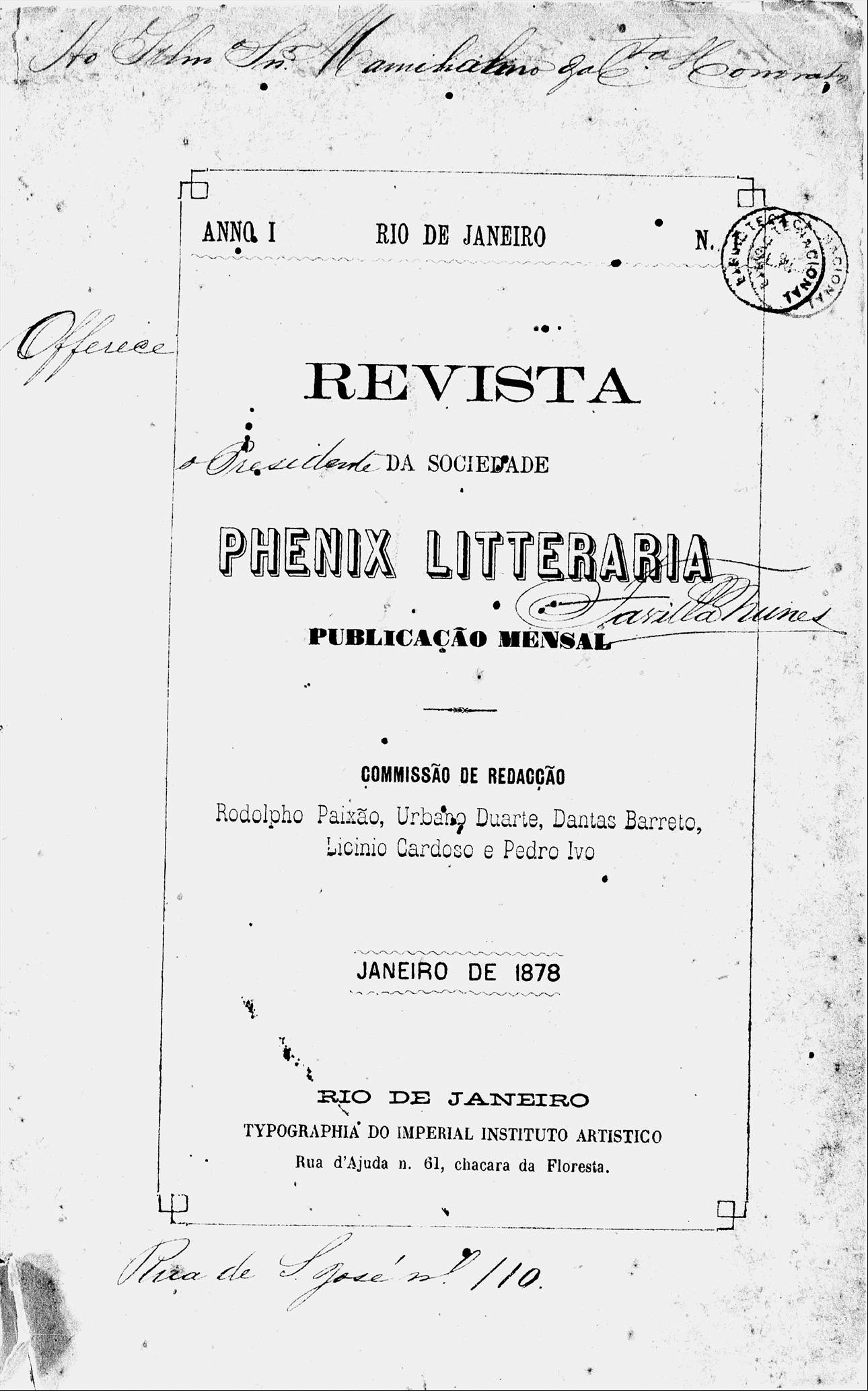 Revista da Sociedade Phenix Litteraria (Revista da Sociedade Fênix Literária).